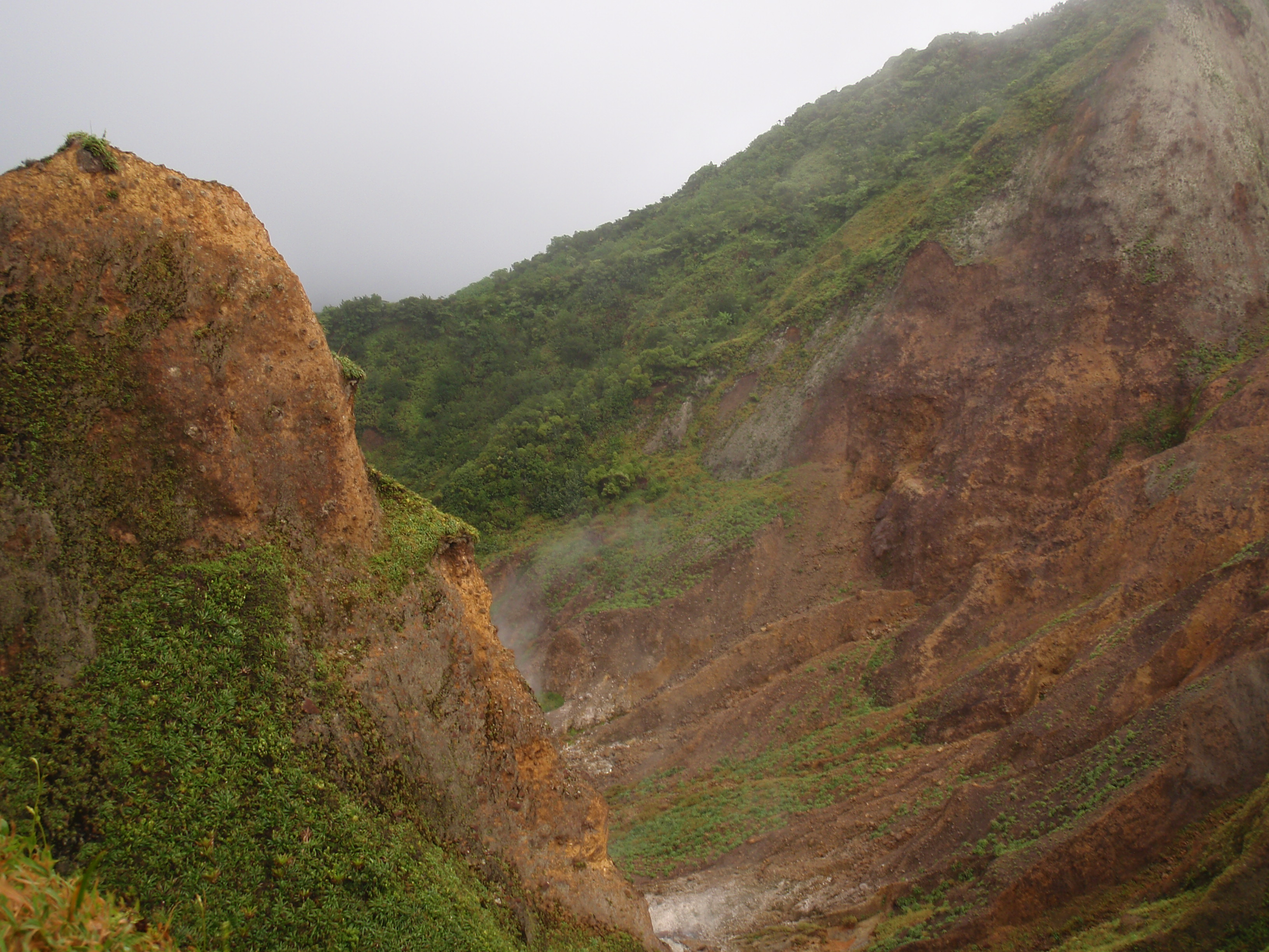 Valley of desolation in Morne Trois Pitons National Park